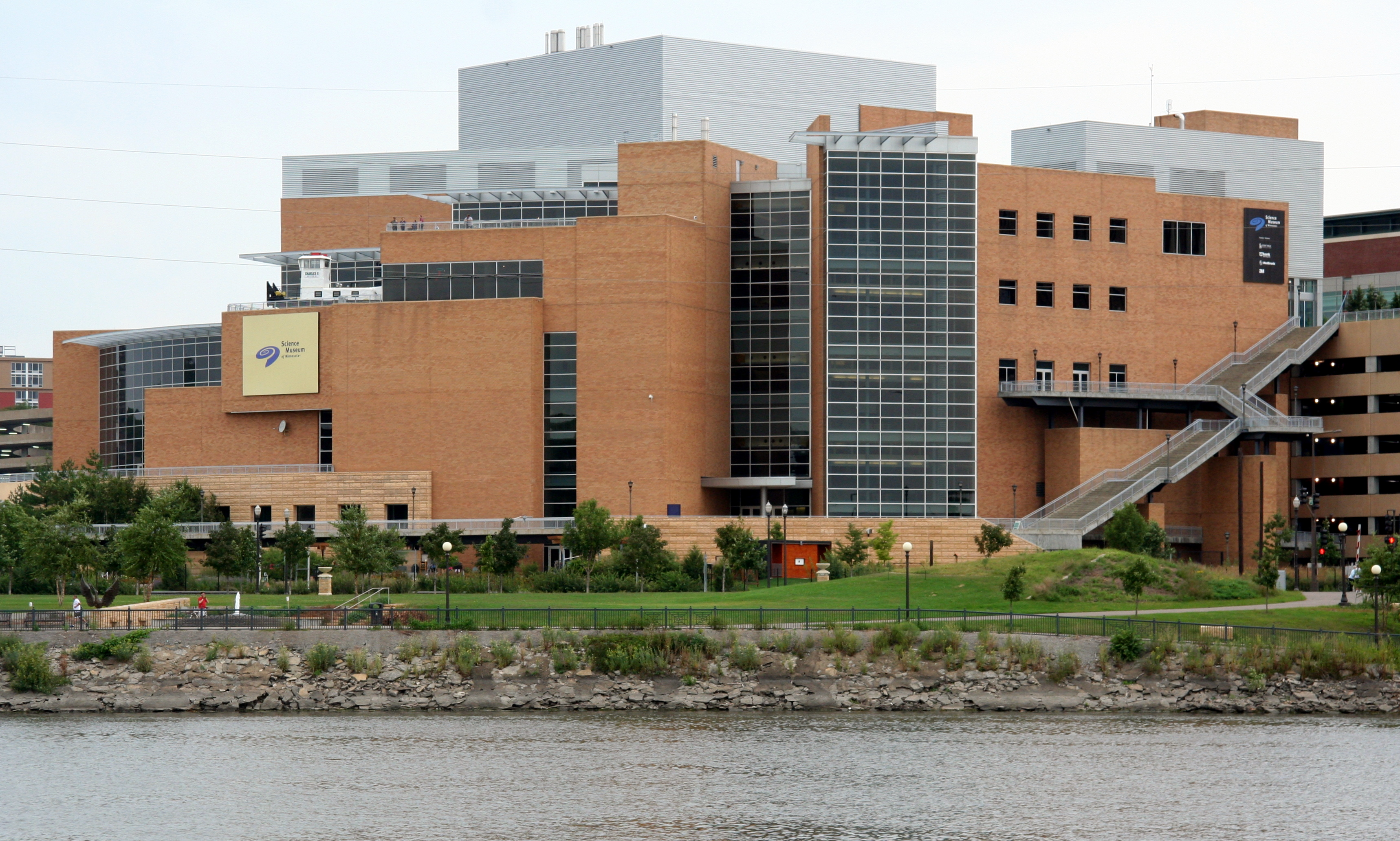 The Science Museum of Minnesota seen from Harriet Island in Saint Paul, Minnesota